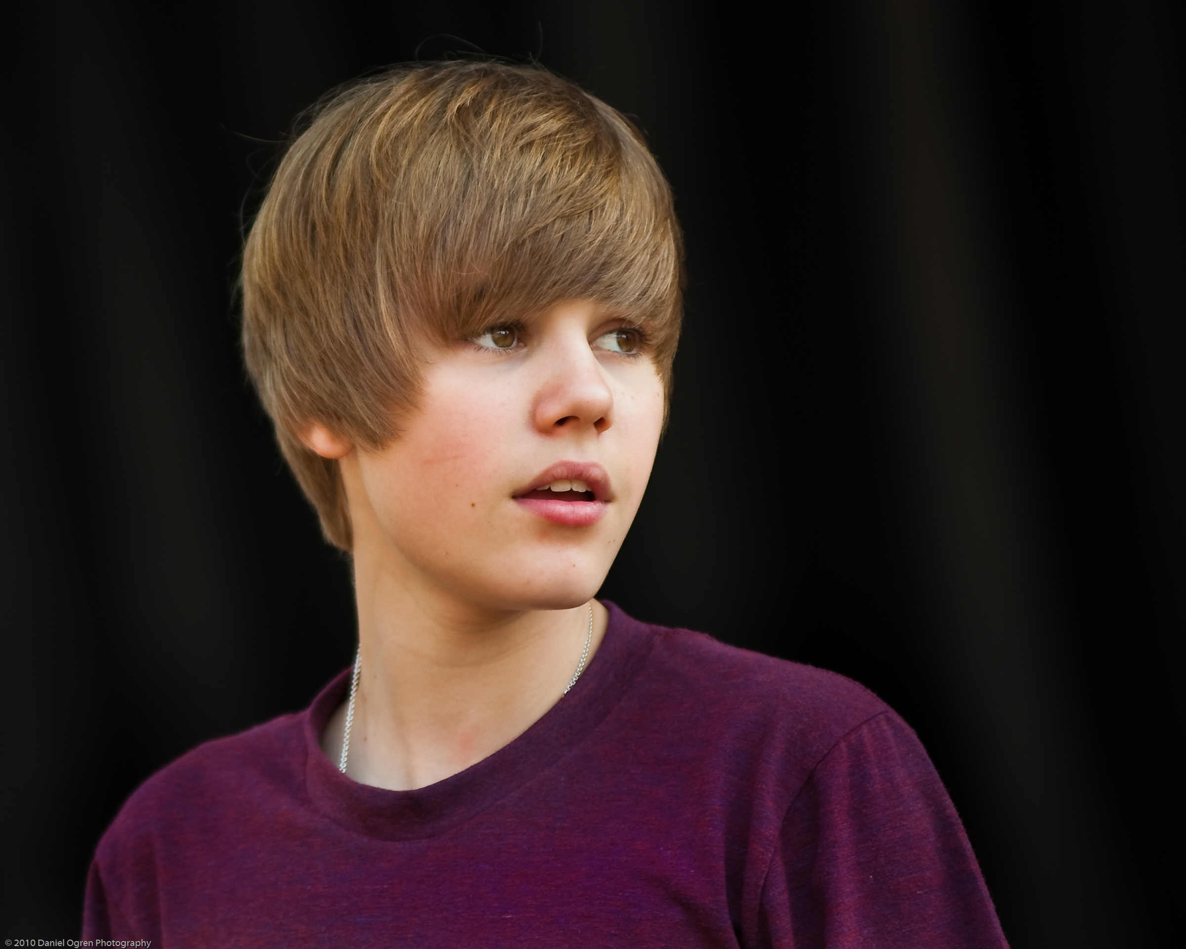 Justin Bieber at the 2010 White House Easter Egg roll.